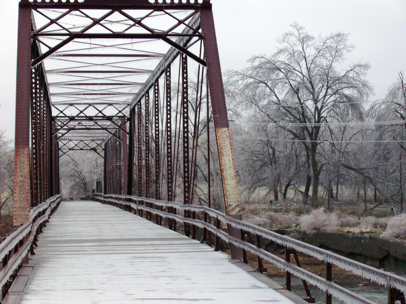 Caplinger Mills Historic District Sac River Bridge Caplinger Mills, MO